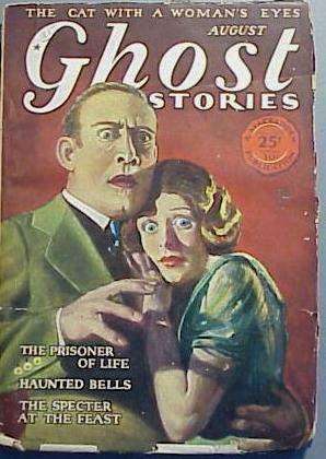 Cover of the pulp magazine Ghost Stories (August 1928, vol. 5, no. 2.